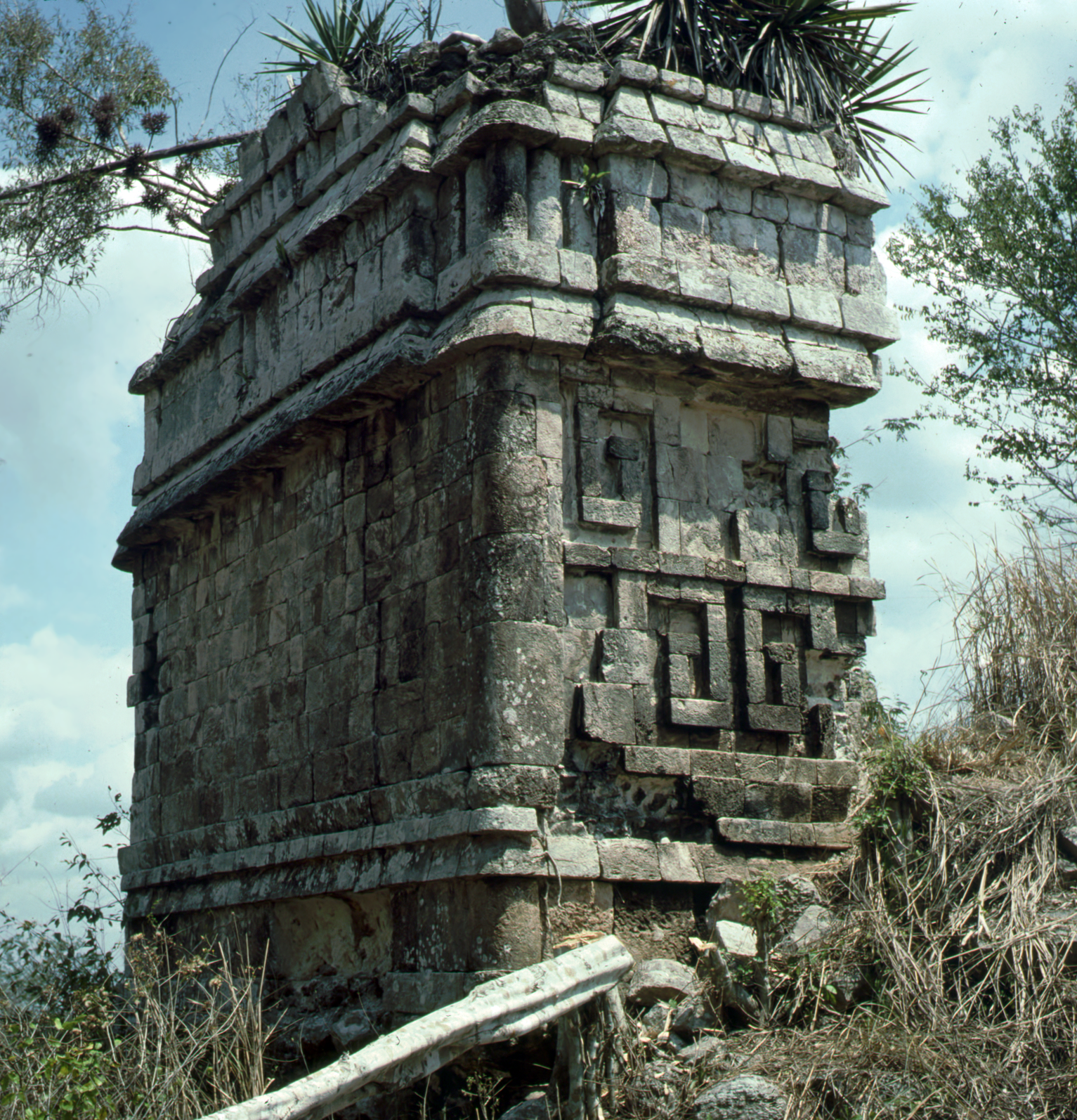 Dsibiltun, Campeche, Mexico. Tempel.